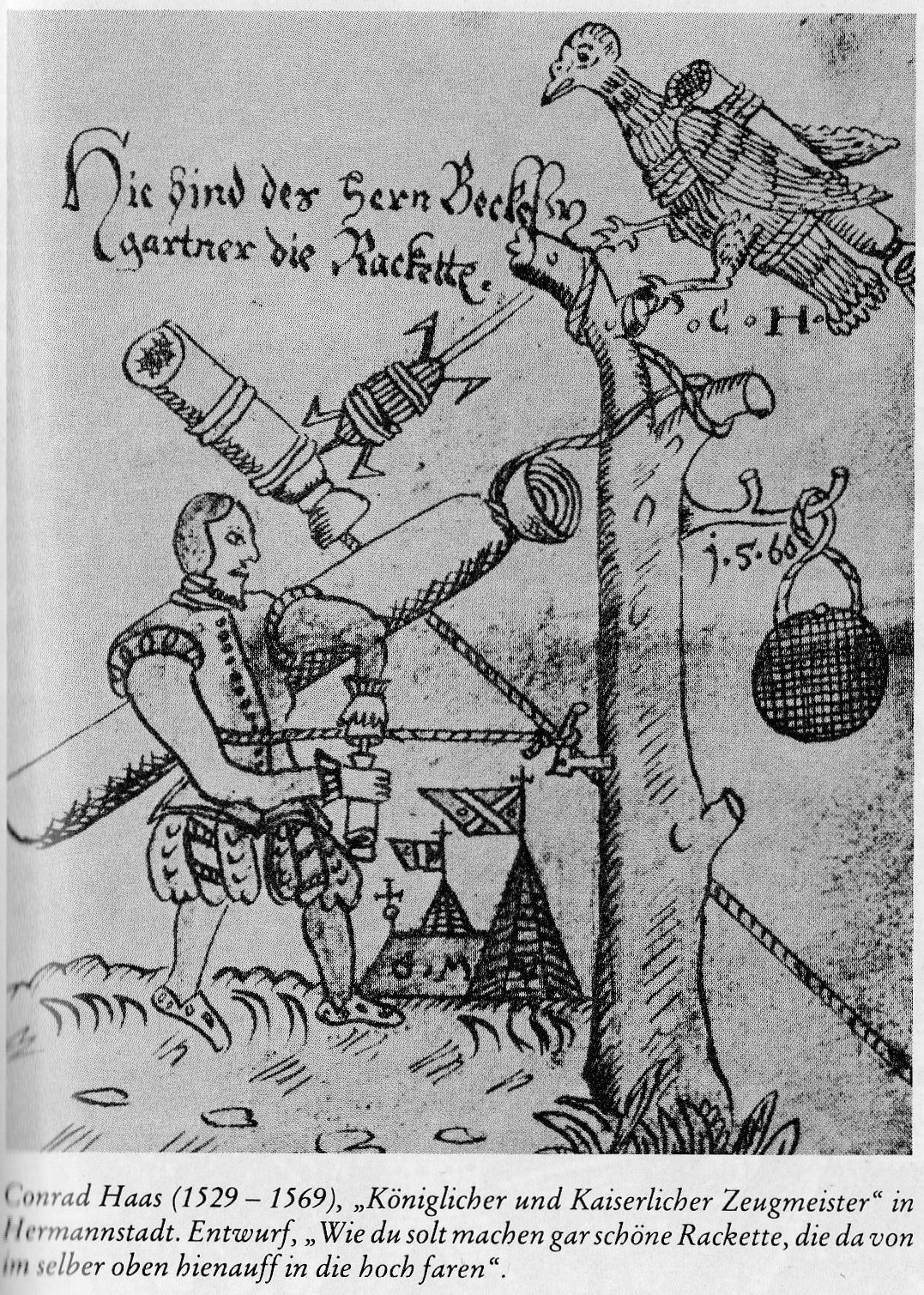 Description of a rocket by Conrad Haas, a german master gunner.